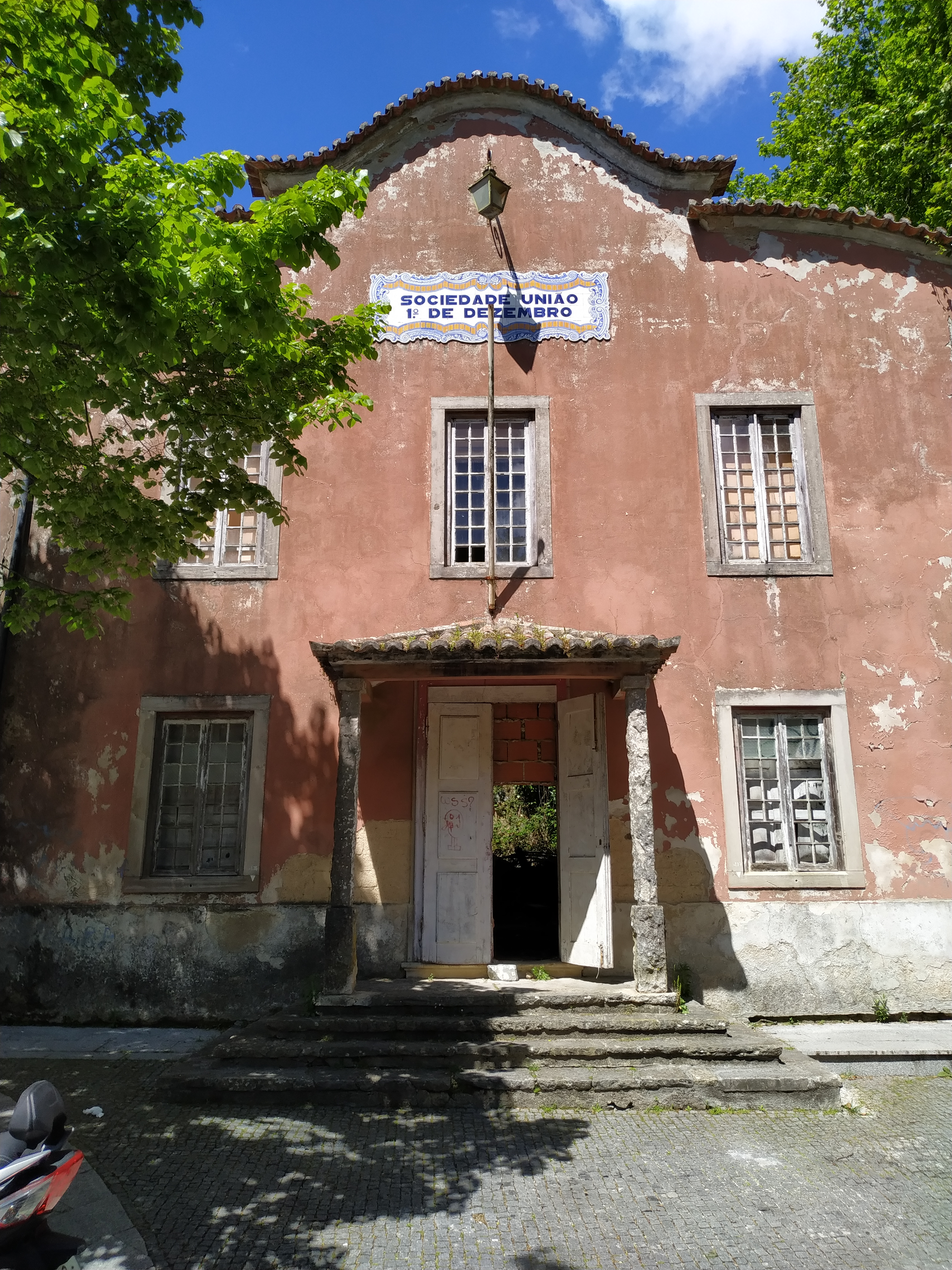 Ruins of the philarmonic 1st December in Sintra Portugal